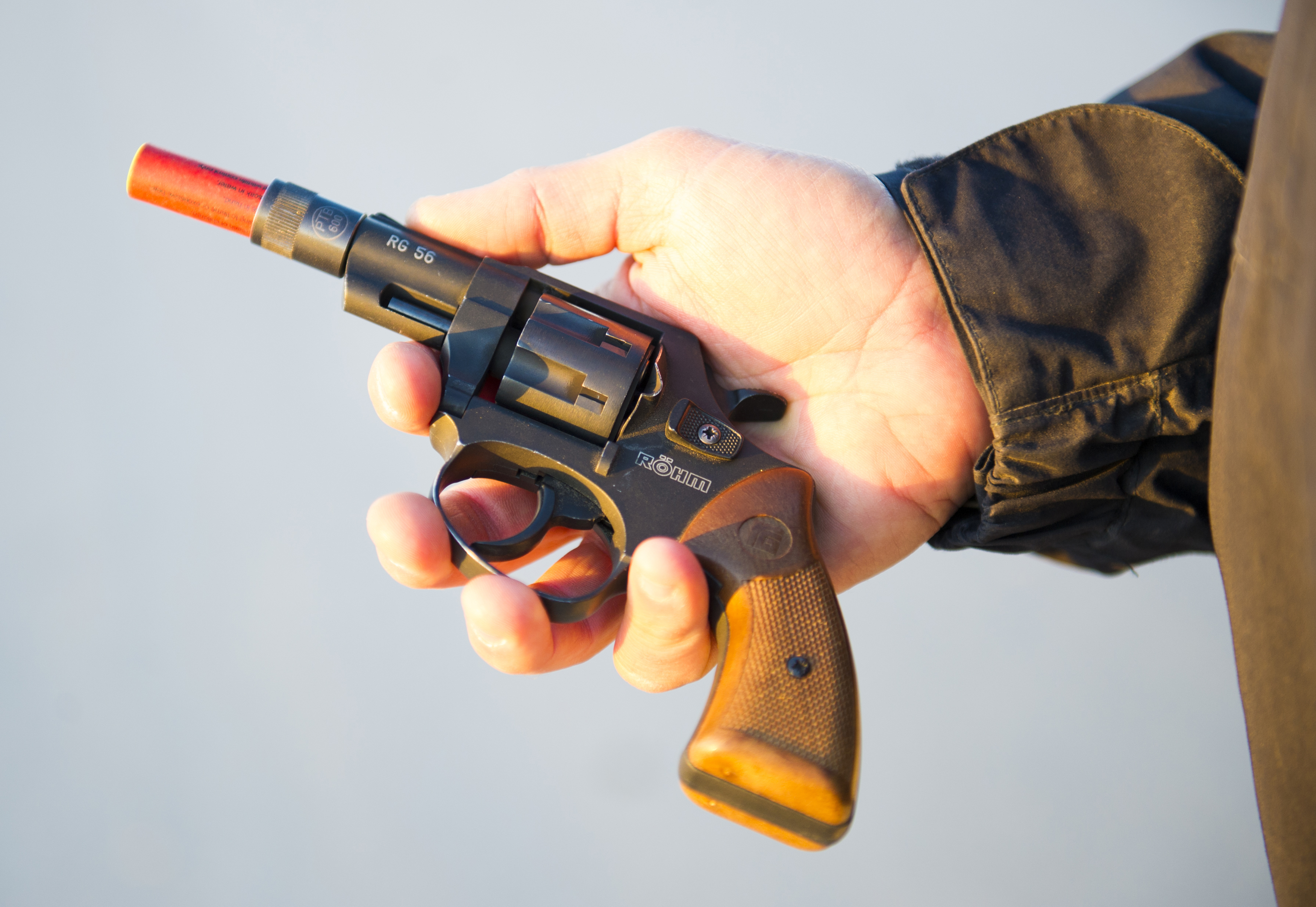 Scott Stopak, a wildlife biologist from the U.S. Department of Agriculture-Wildlife Services, holds a pyrotechnic pistol with a “banger” pyrotechnic bird-scare device. Stopak is with the 455th Air Expeditionary Wing Safety Office and works day and night to ensure animals of various types do not impede flying operations at the airfield. (U.S. Air Force photo by Capt. Bryan Bouchard)